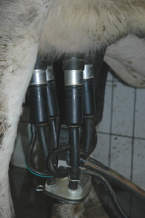 Melkgeschirr im Melkstand